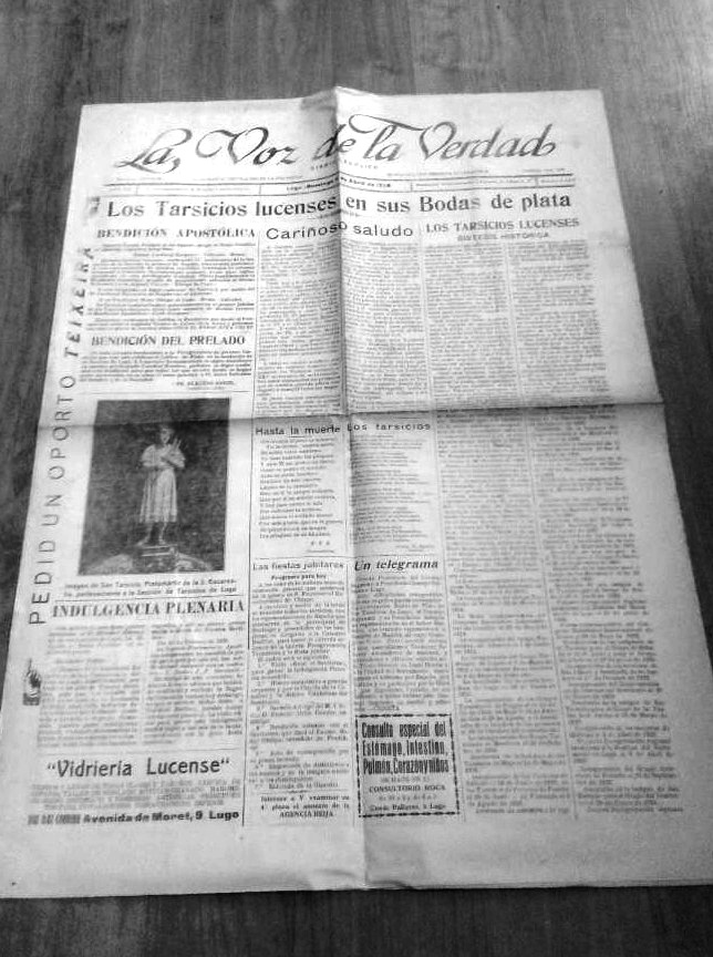 The Voice of Truth